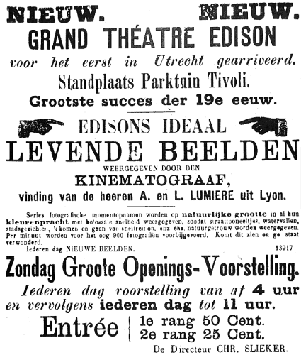 Advertisement in the Utrechtsch Dagblad of Saturday November 28, 1896 for the first film viewing in Utrecht on the next day